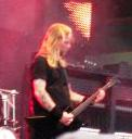 Jesper Strömblad, guitar player and founder of Swedish metal band IN FLAMES, at Gröna Lund, Stockholm